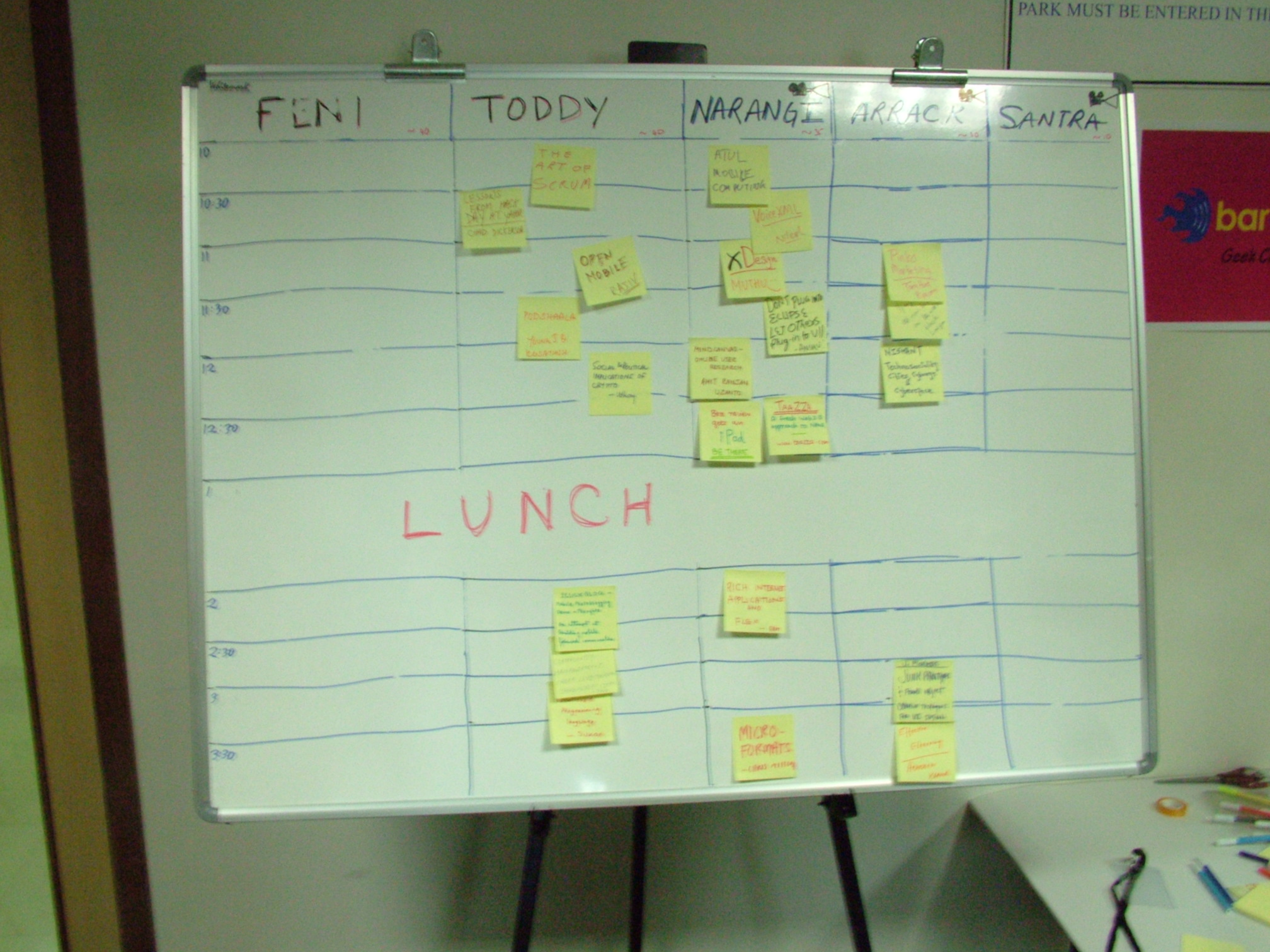 The grid at BarCamp Bangalore Wiki